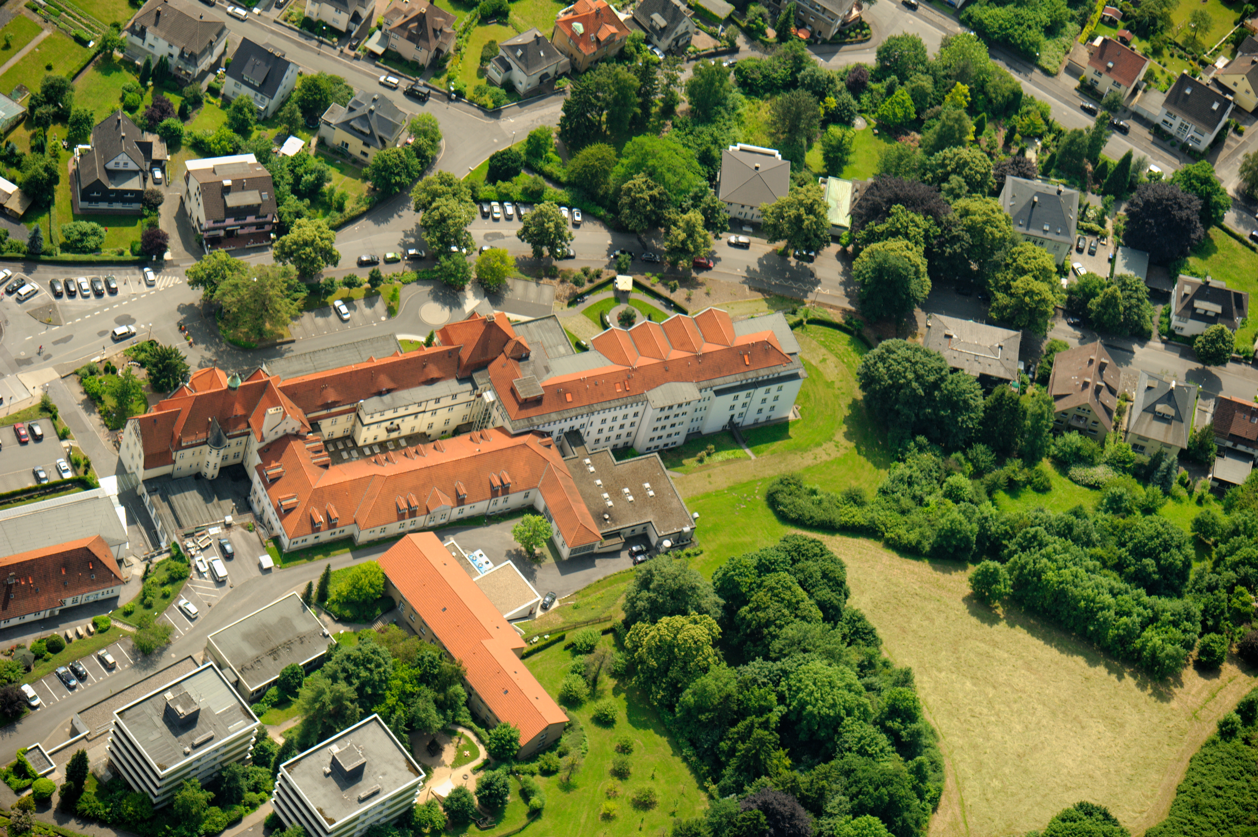 Fotoflug Sauerland-Ost - Arnsberg, Marienhospital The making of this document was supported by the Community-Budget of Wikimedia Germany.